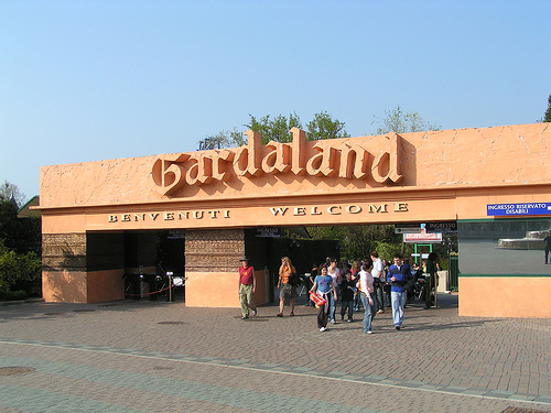 Gardaland logo